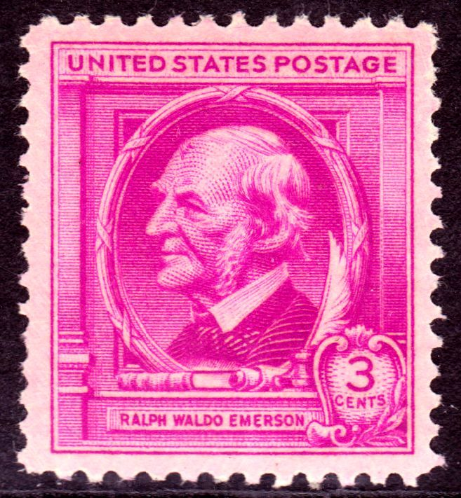 Ralph_Waldo_Emerson_1940_Issue-3c.jpg